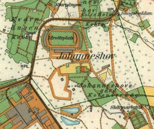 map of Johanneshov